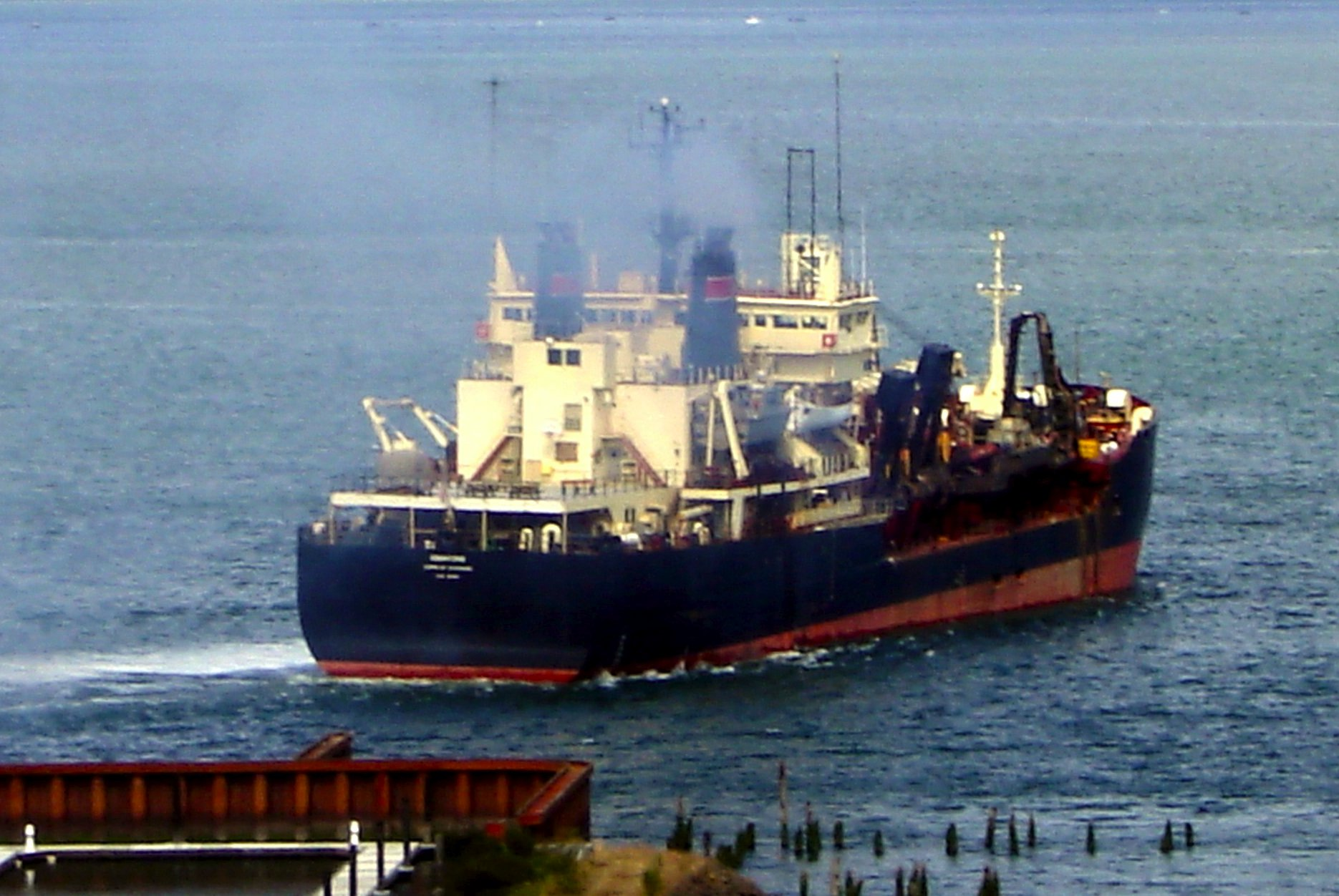 The Essayons is one of the U.S. Army Corps of Engineers' four hopper dredges, built in 1983 at a cost of $100 million.. She is a 350 feet in length and can pick up 600 dump truck loads of sand from the ocean floor in an hour.